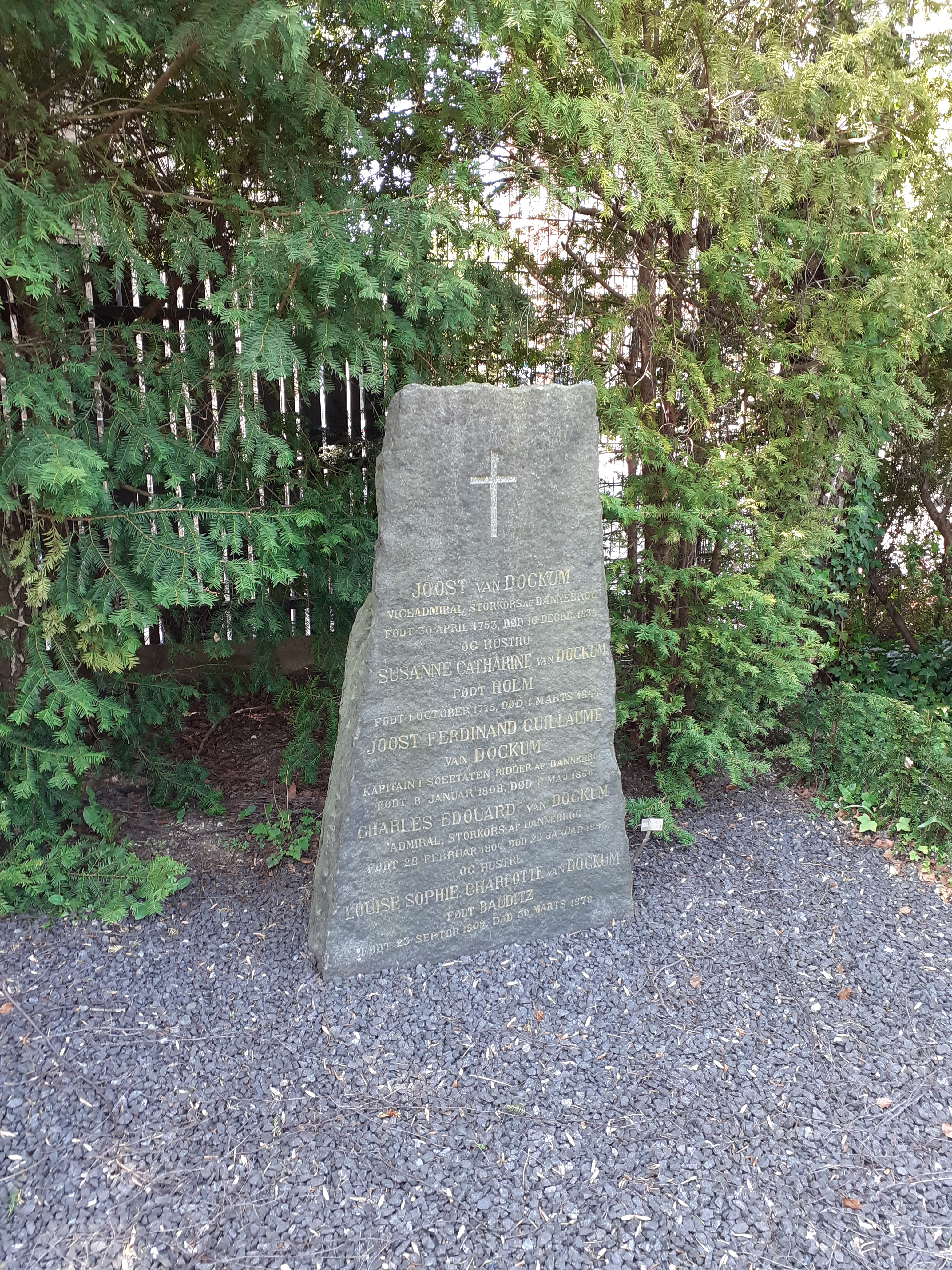 The grave of the viceadmiral Jost van Dockum (1753-1834) and his son, viceadmiral Charles Edouard van Dockum (1804-1893) at Holmens Kirkegård in Copenhagen. Charles Edouard van Dockum is also known as Carl Edvard van Dockum. He was minister for the navy in 1850-1852 and 1866-1867.